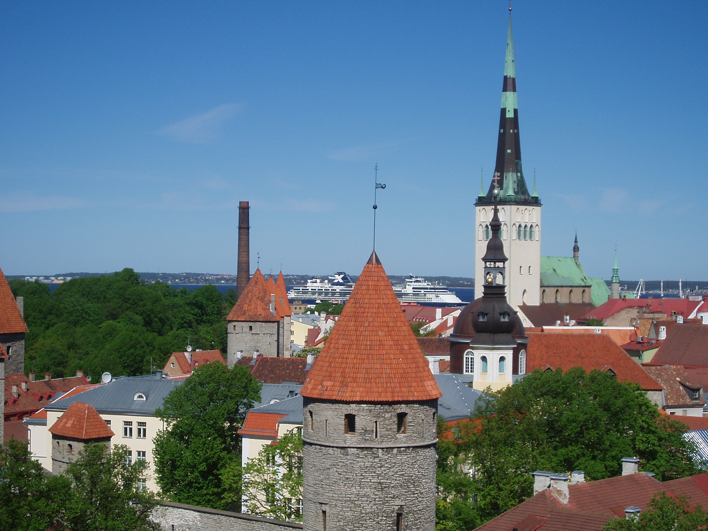 Wall Towers and St. Olaf's Church in Tallinn 28 May 2005 (Constellation at pier in Port of Tallinn)